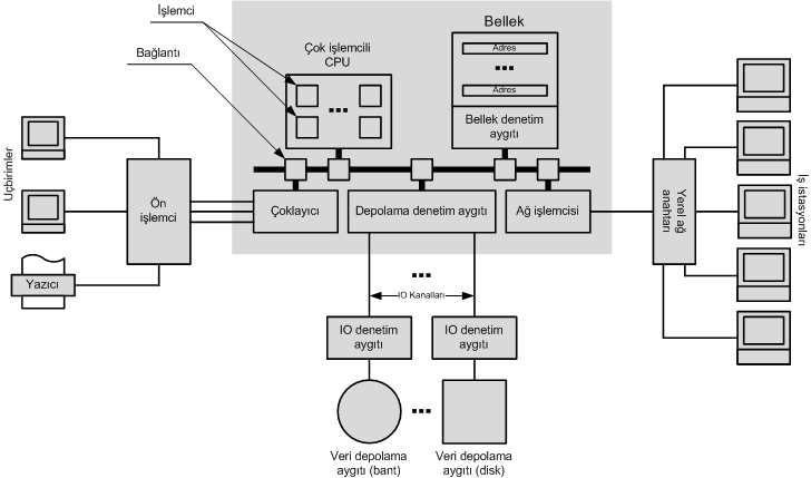 The figure depicts major components of a mainframe computer and its peripherals (in Turkish).